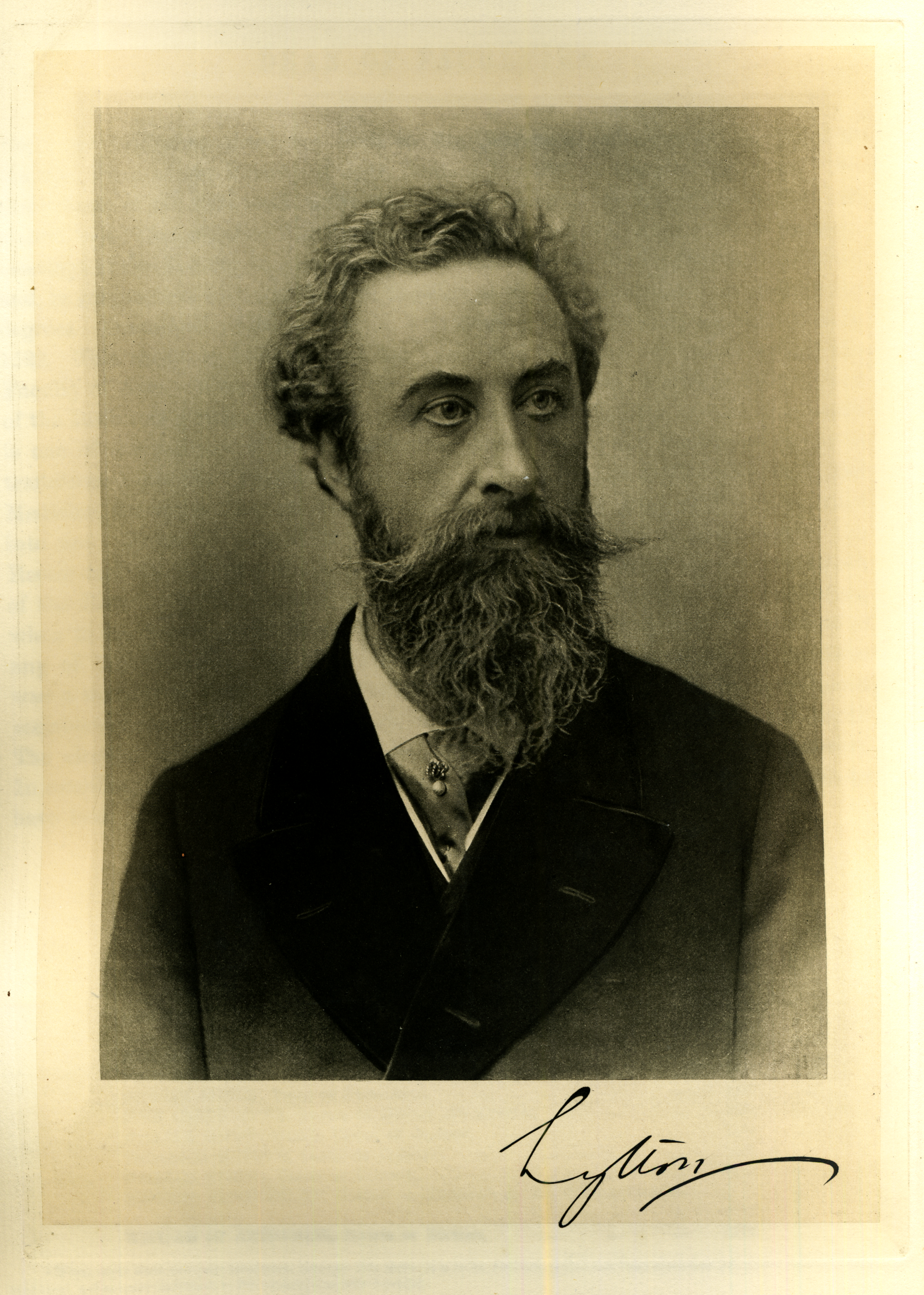 Signed photograph of Robert Bulwer-Lytton, 1st Earl of Lytton